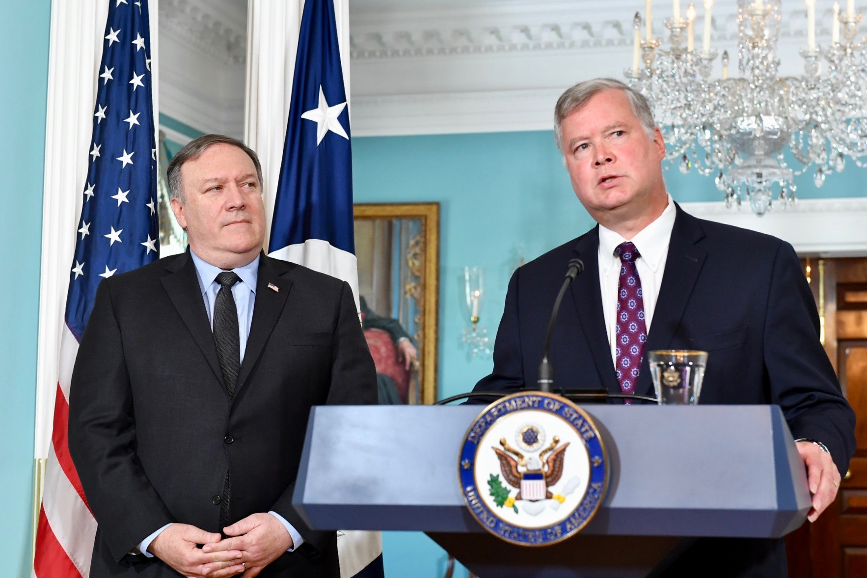 Special Representative for North Korea Stephen Biegun flanked by U.S. Secretary of State Michael R. Pompeo addresses the press at the U.S. Department of State in Washington, D.C. on August 23, 2018. [State Department photo/ Public Domain]